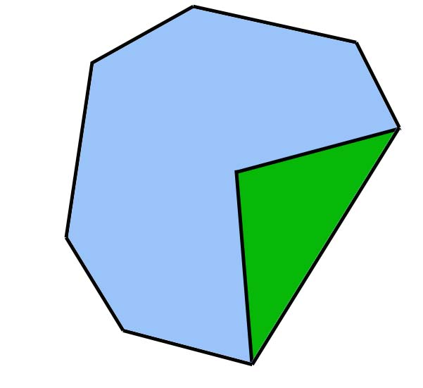 Impossibility of finding a non-convex solution for the isoperimetric problem.